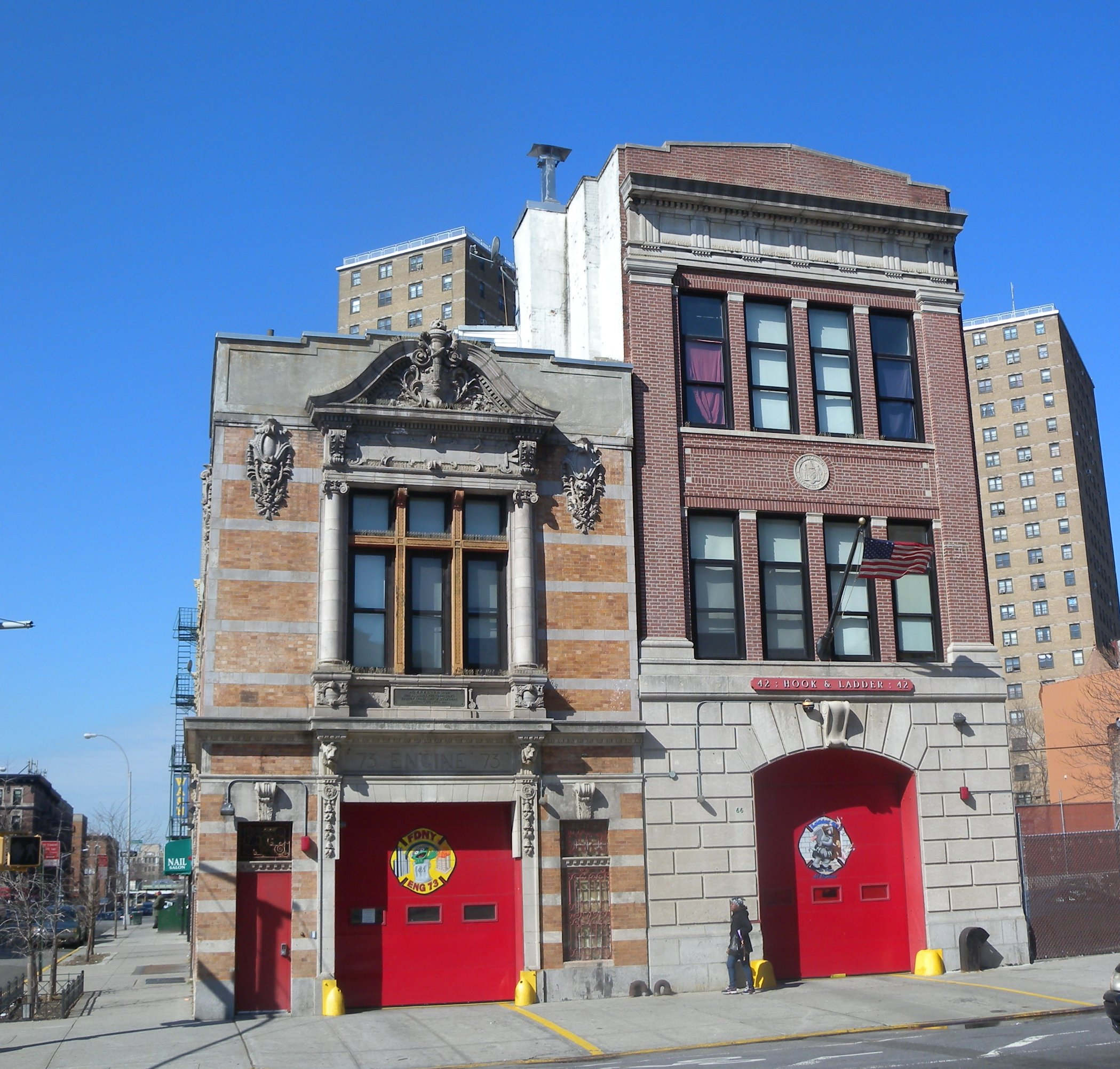 Looking west across Prospect Avenue at firehouses built in 1900 (left) and 1912 (right), on a sunny midday. NYCLPC 2013. Bronx Times 2013 Feb 26